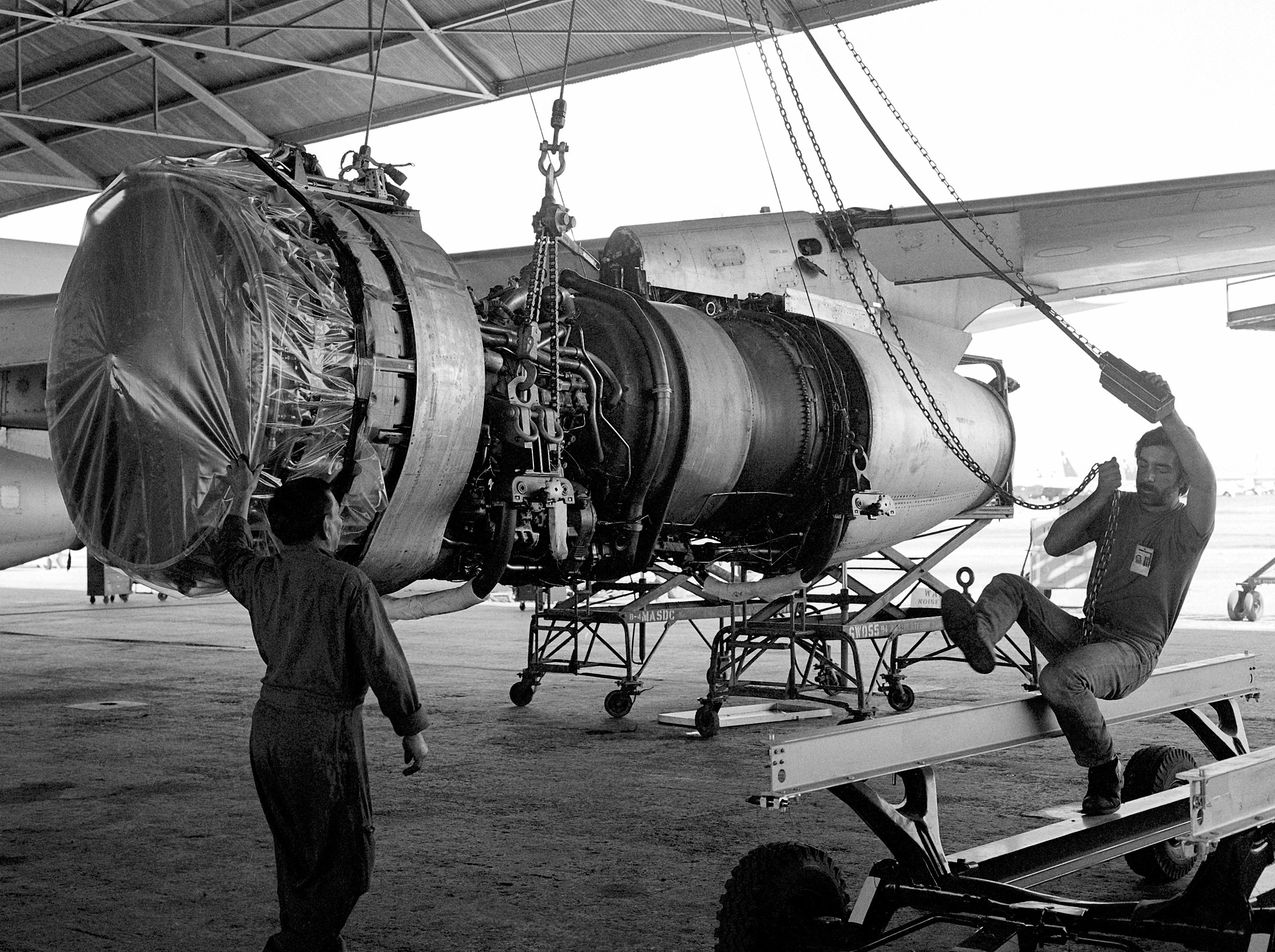 Two technicians stand by while a civil Boeing 707 Pratt & Whitney JT3D (military designation TF33) aircraft engine is supported by the hoist on 6 December 1984. The Military Aircraft Disposition and Storage Center at Davis-Monthan Air Force Base, Arizona (USA), was reclaiming commercial Boeing 707 aircraft, using engines and spare parts in a re-engineering program for Boeing KC-135A Stratotanker aircraft. The modifications to the KC-135E entailed changing the J57 engine for the TF33-PW-102 engines, improved brakes, avionics upgrades and new horizontal stabilizers. The KC-135E was 14 percent more fuel efficient than the KC-135A and could offload 20 percent more fuel.